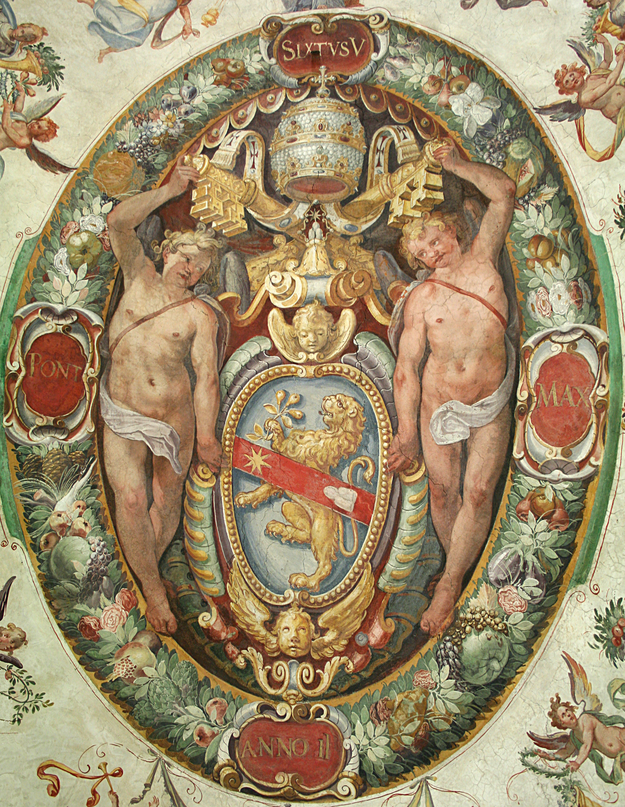 Coat of arms of Pope Sixtus V decorating the vault of the staircase next to the Sistine Chapel.